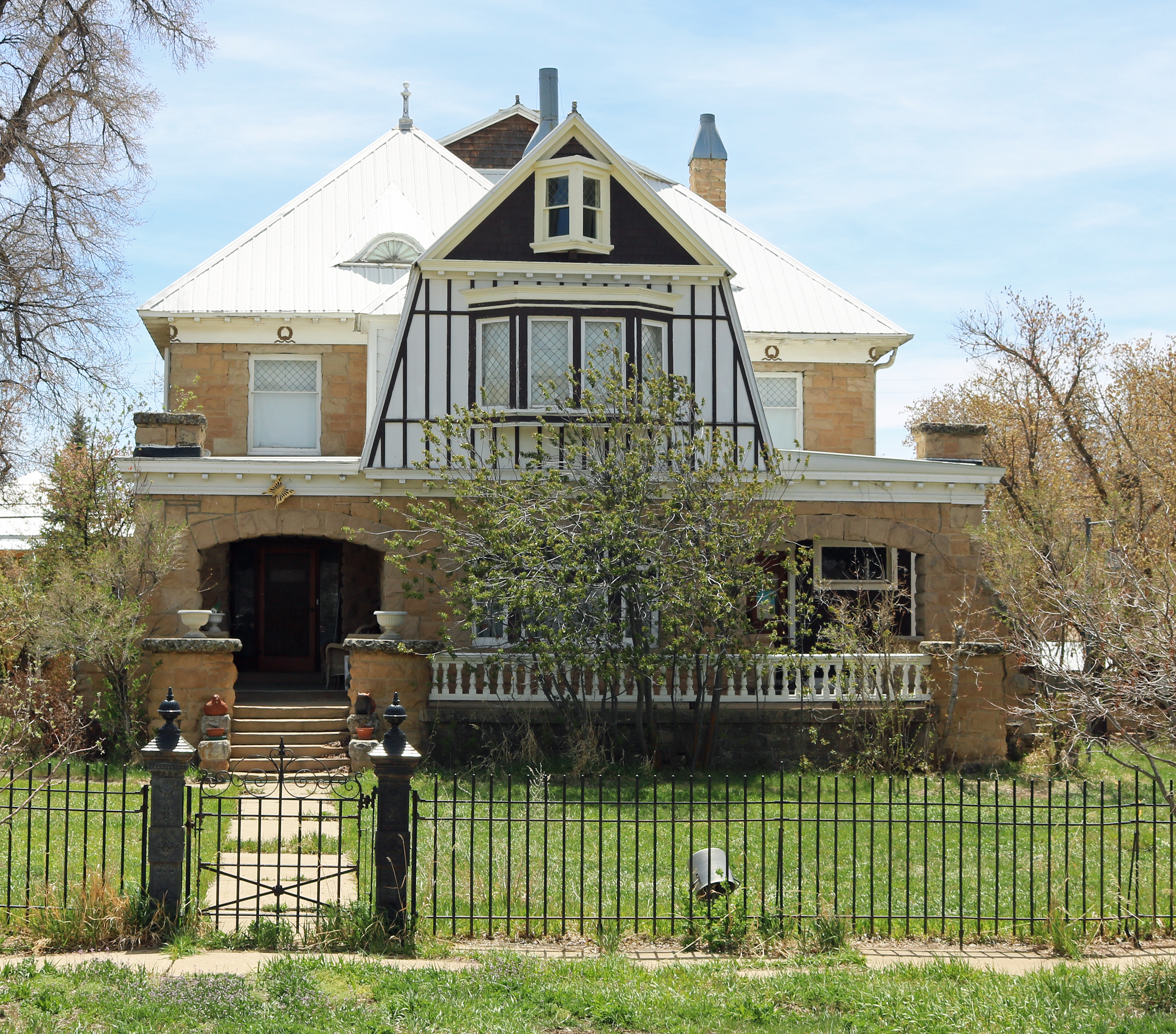 The Wrightsman House, located at 209 Bauer Avenue in Mancos, Colorado. The house is listed on the National Register of Historic Places.